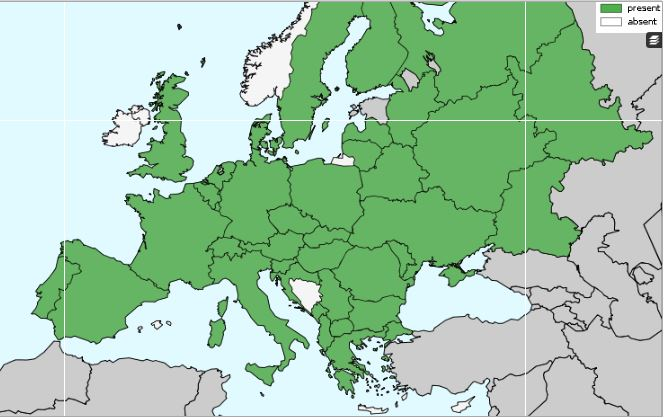 Rasprostranjenje vrste u Evropi (Fauna Europaea)